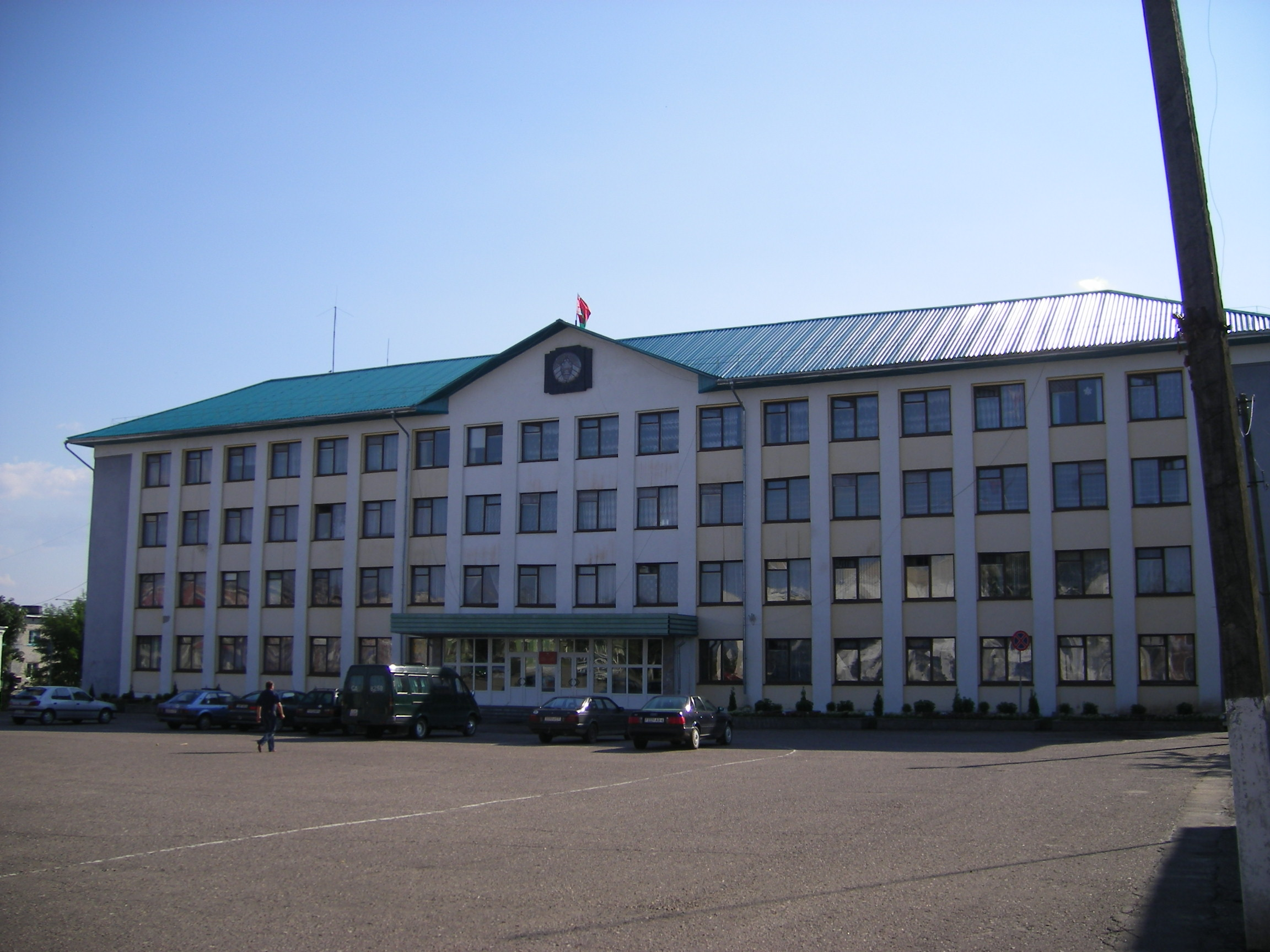 Karelichy, Raion administration building